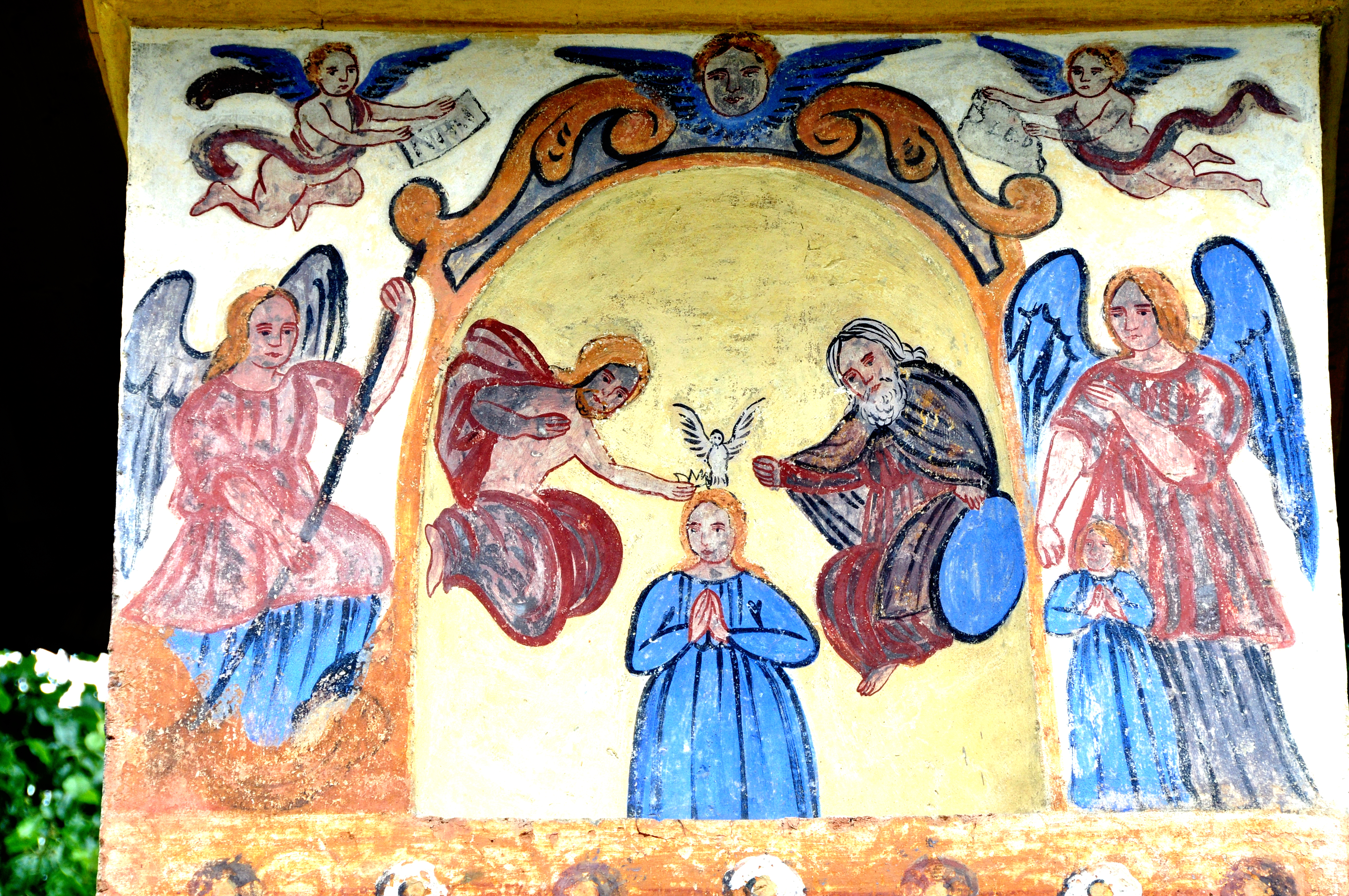 Trinity fresco on the wayside shrine "POLZERKREUZ" from the year 1680 at Leisbach in the municipality Keutschach am See, district Klagenfurt-Land, Carinthia, Austria